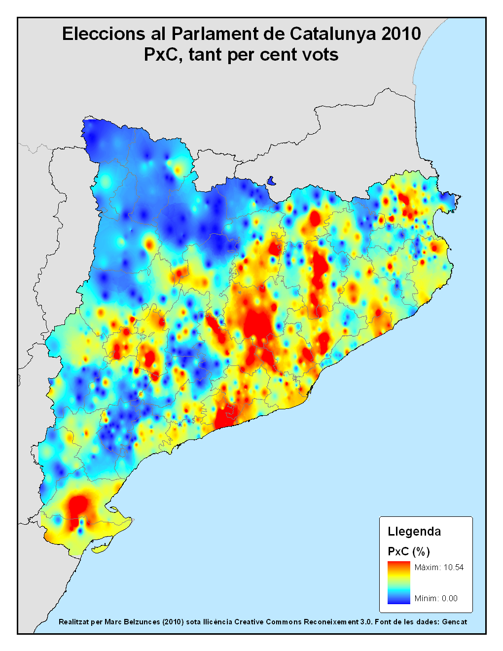 Distribution of the Platform for Catalonia to vote in elections to the Parliament of Catalonia 2010.